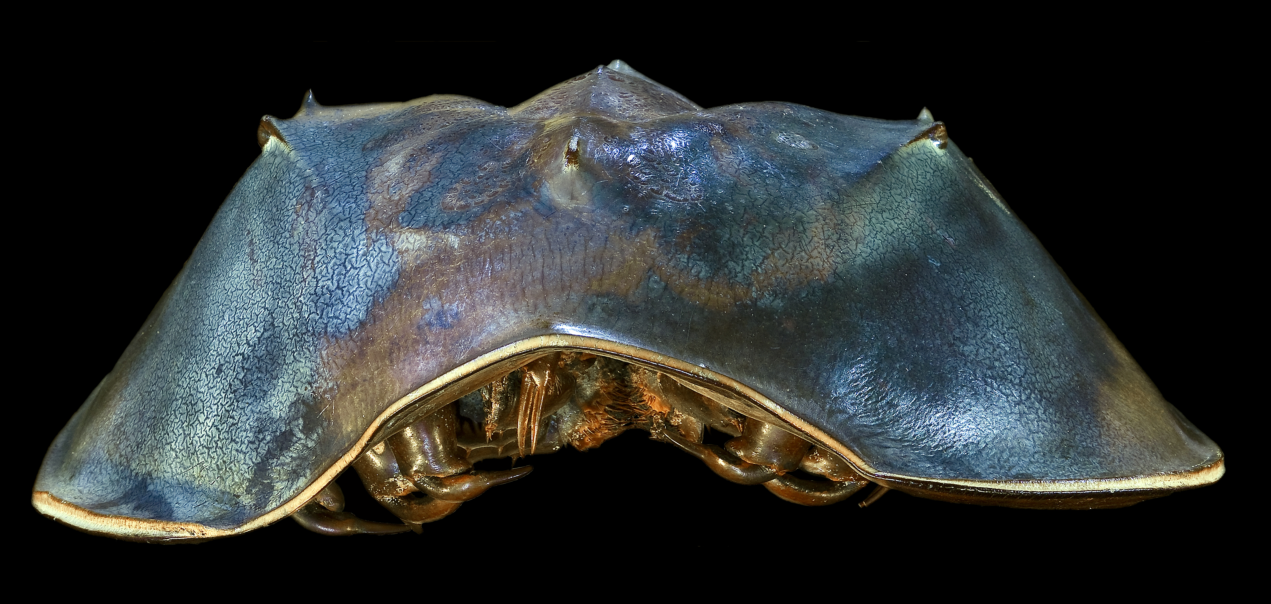 Horseshoe crab - 55 cm (face) - East Coast of the United States - A studio shot